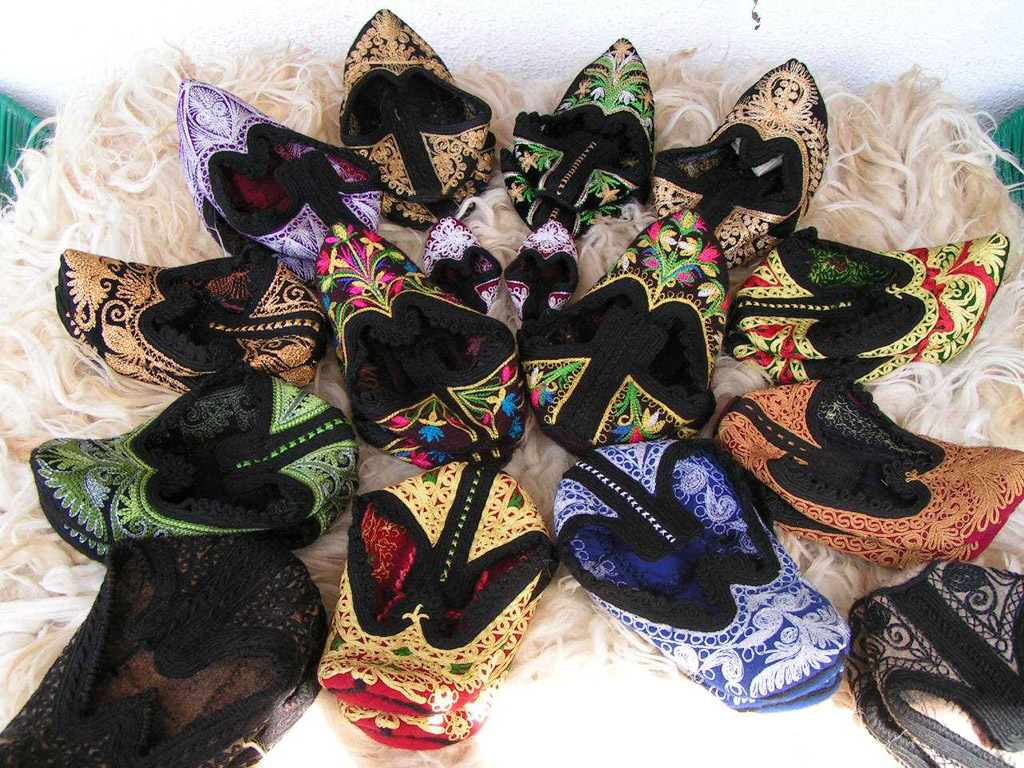 Bulgarian traditional folklore slippers.